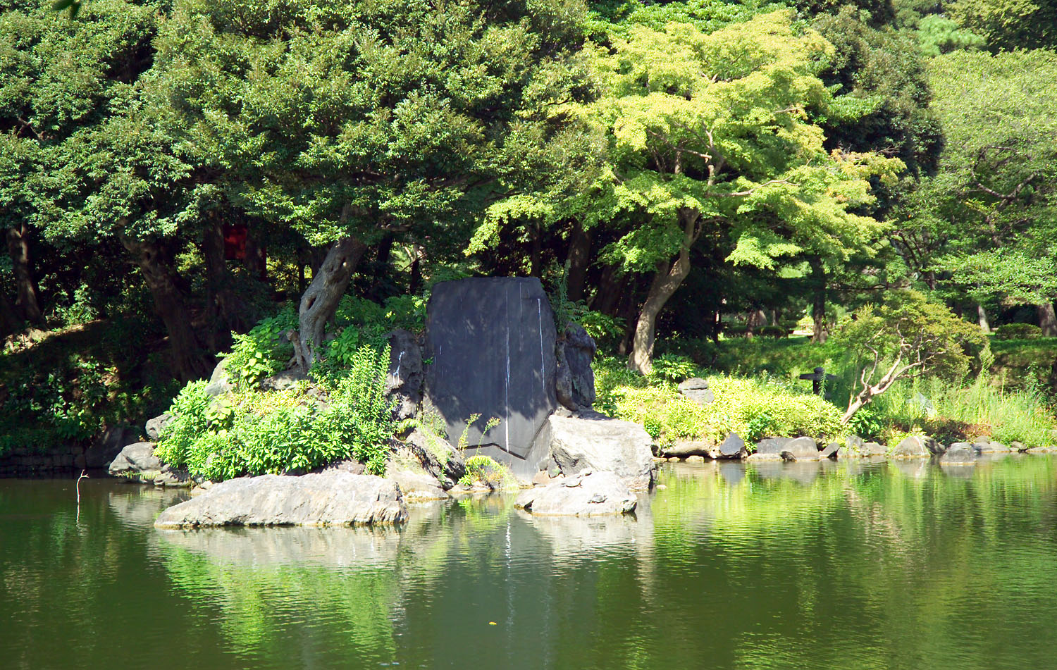 Koishikawa Korakuen is a Japanese garden in Tokyo, Japan. The Mito Tokugawa family established the garden near their residence, close to the castle. Now, Korakuen is an oasis of greenery amid the bustle of downtown Tokyo, adjacent to Tokyo Dome and the Korakuen amusement park. I took this photo and contribute my rights in the file to the public domain; individuals and organizations retain rights to images in it.